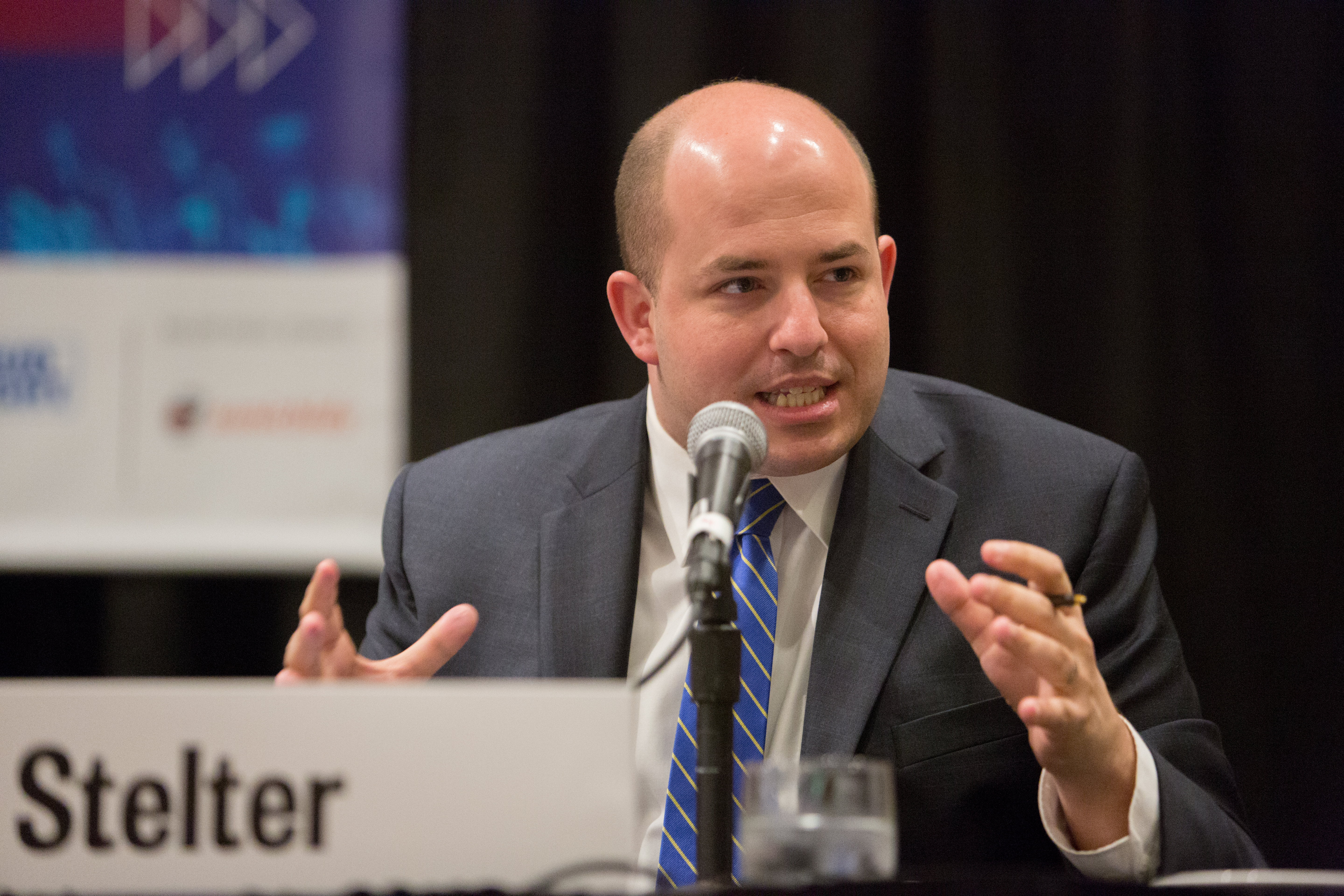 From the session "The War at Home: Trump and the Mainstream Media".